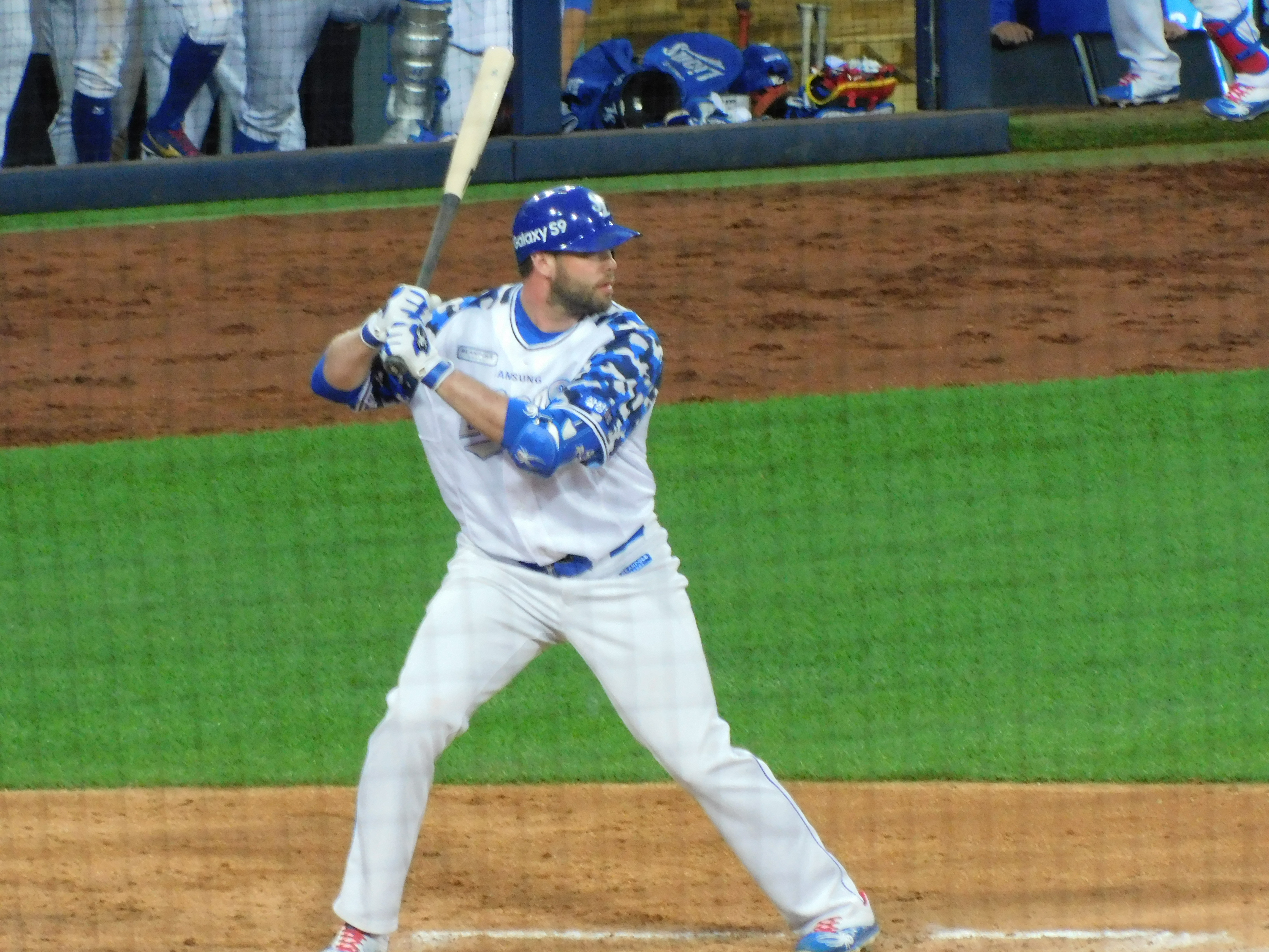 Professional baseball player Darin Ruf batting for the Samsung Lions of the KBO on 10 June 2018.